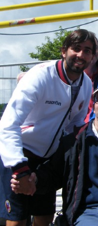 José Ángel Crespo with Bologna FC.